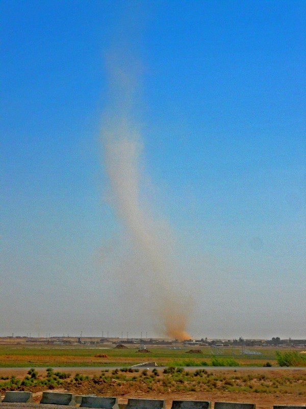 Taken by Andrew Patton, July 2007. This picture is of a dust devil in Ramadi, Iraq. It has been slightly photo edited (brightness & contrast, and shadow & highlight parameters) in order better bring out the dust devil in the picture.